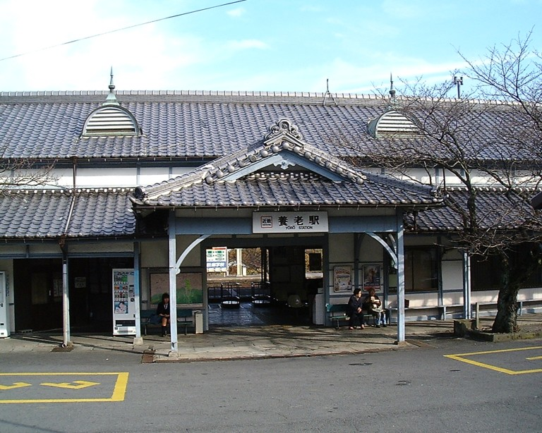 Kintetsu (now Yoro Railway) Yoro Station, 3 December 2002